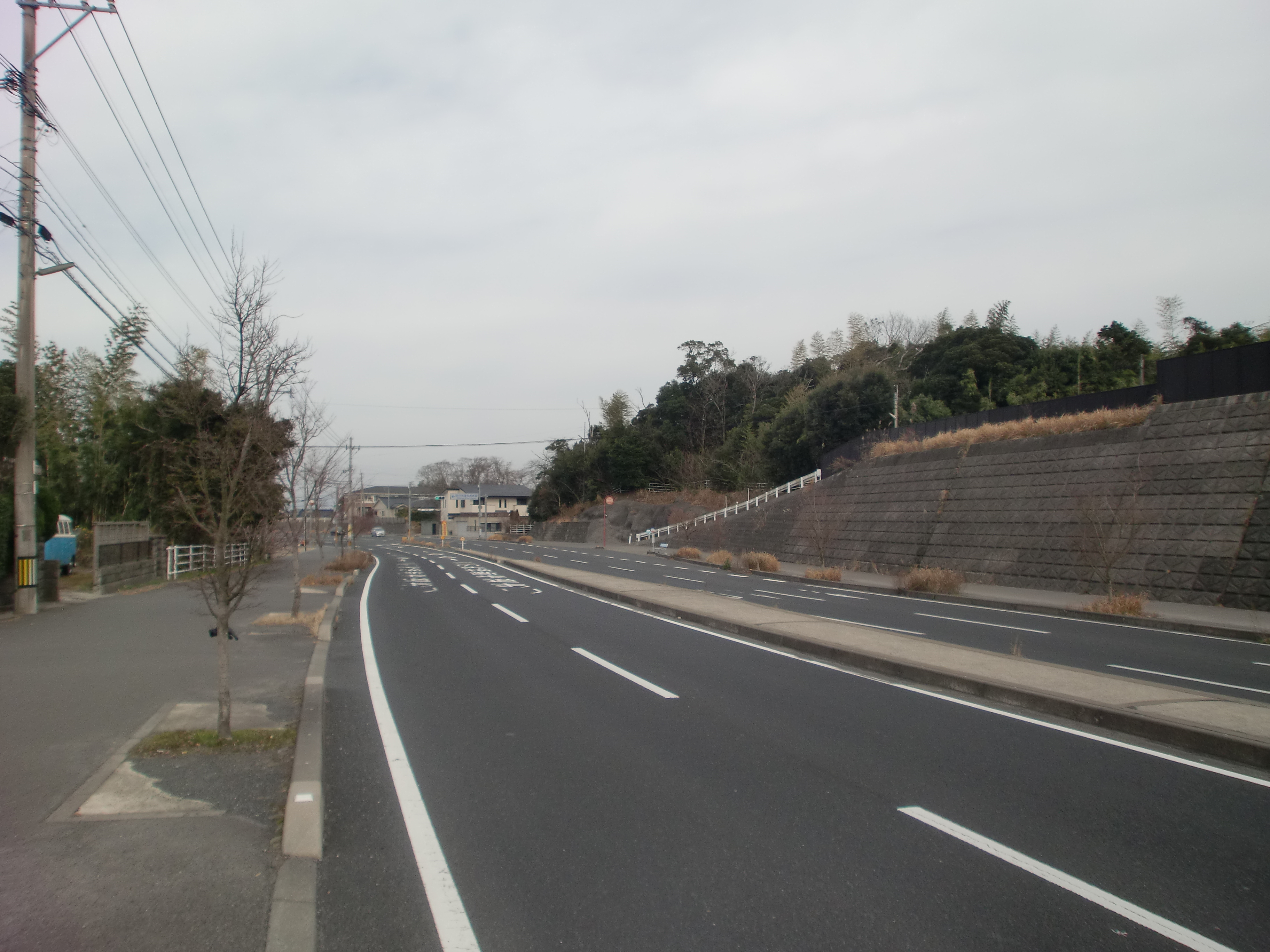 The Kagoshima Prefectural Road Route 210 in Ishitanicho, Kagoshima City, view towards Koyamadacho